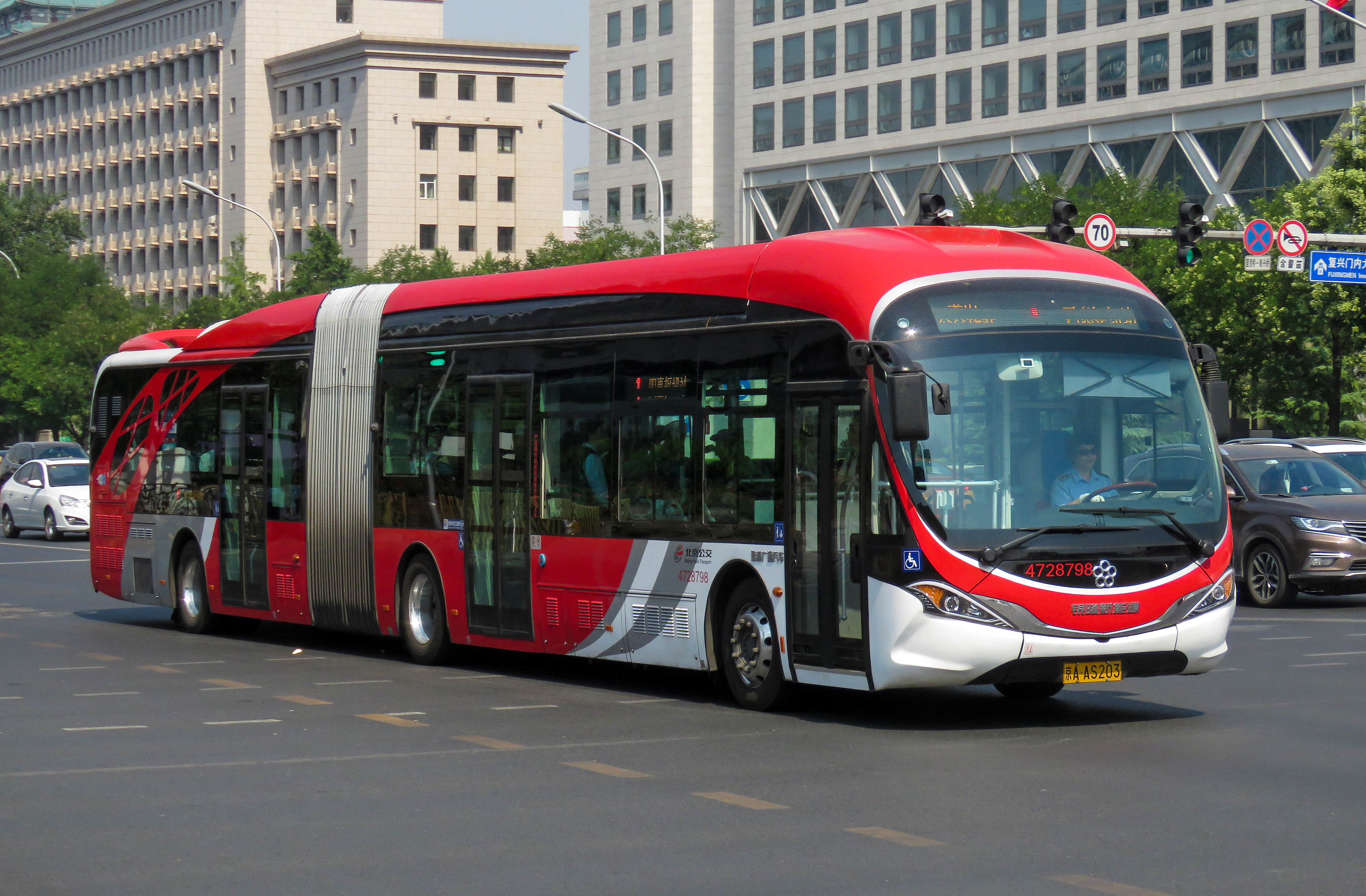 First batch.